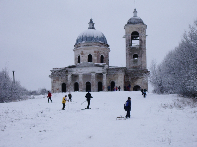 The churche in Bronnitsa village. Novgorod oblast, Russia